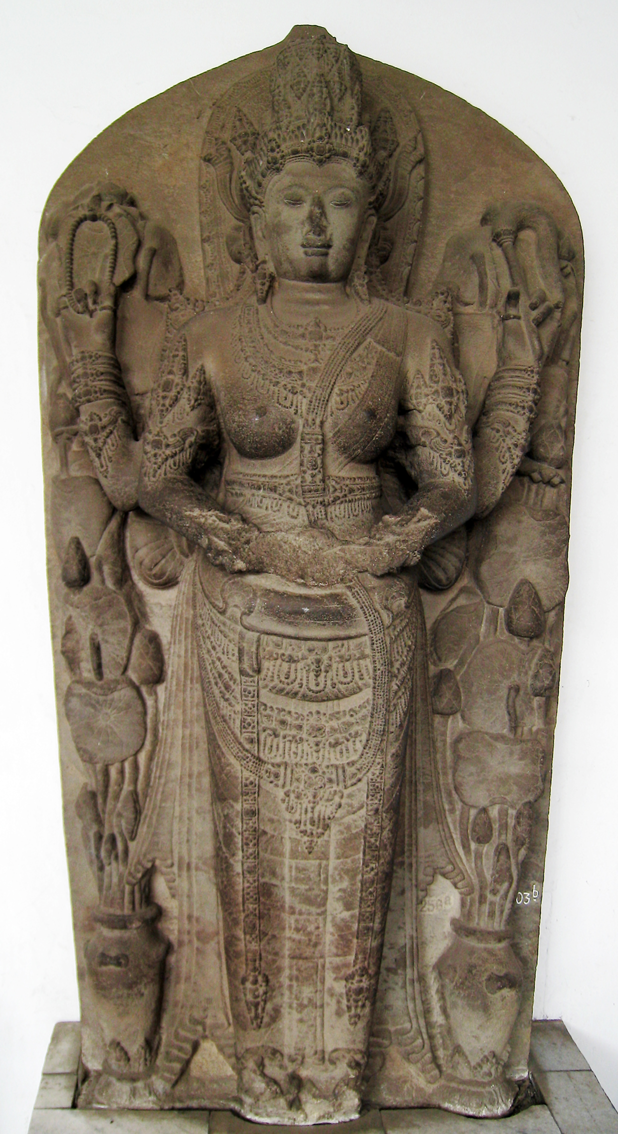 The statue of the Hindu goddess Parvati, the consort of Shiva. The statue represent Tribhuwanottunggadewi, queen of Majapahit (1328-1350). The statue originated from Rimbi temple, East Java, circa 14th century CE. The statue now is the collection of National Museum of Indonesia, Jakarta.